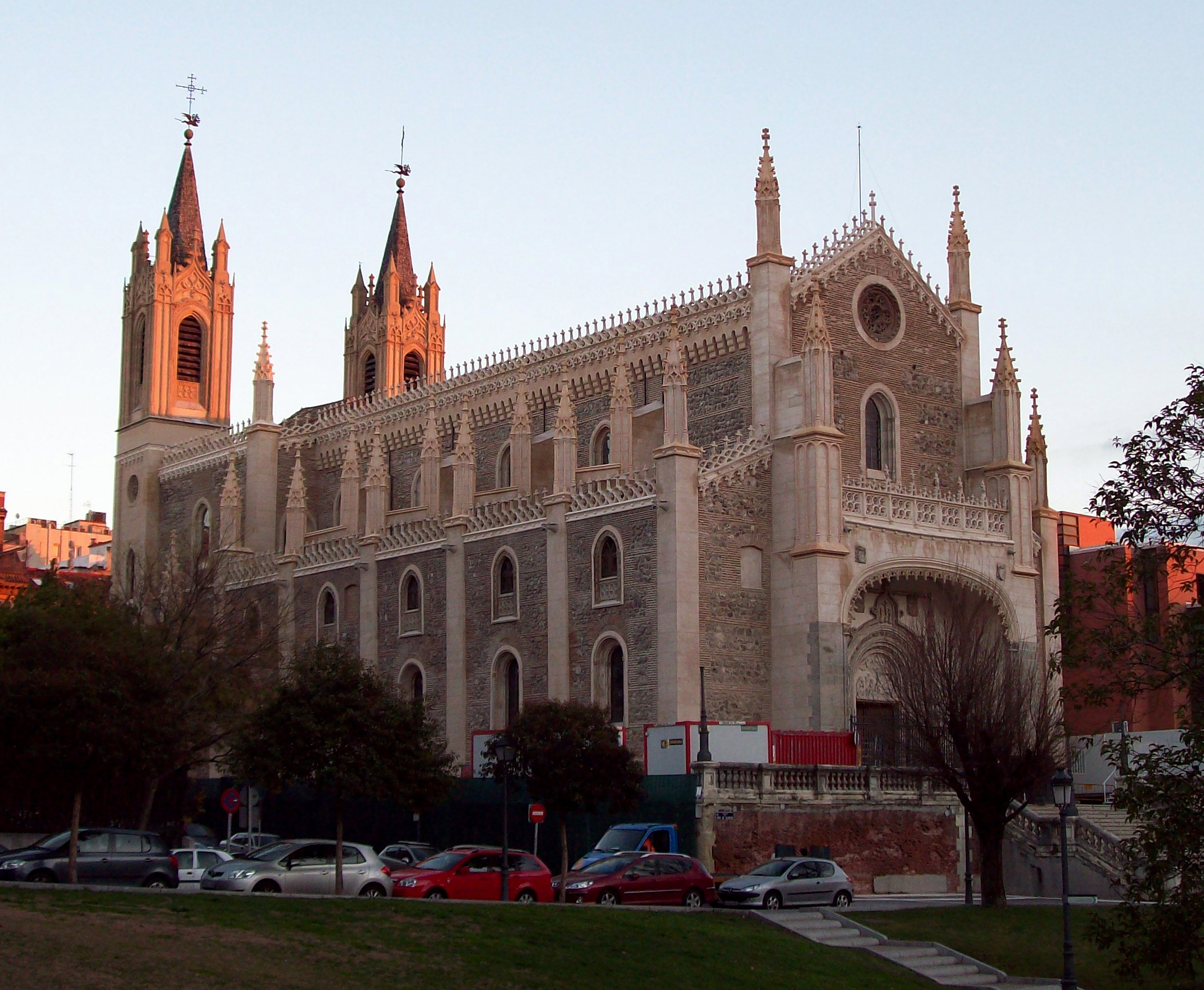 Façade of St. Jerome Church in Madrid (Spain).